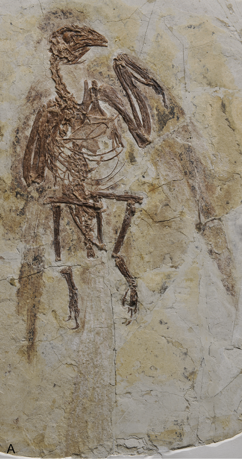 Photograph of IVPP V18687, the holotype fossil specimen of the enantiornith Parapengornis eurycaudatus.